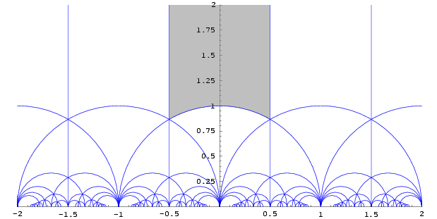 Fundamental domain for the modular group on the upper half plane